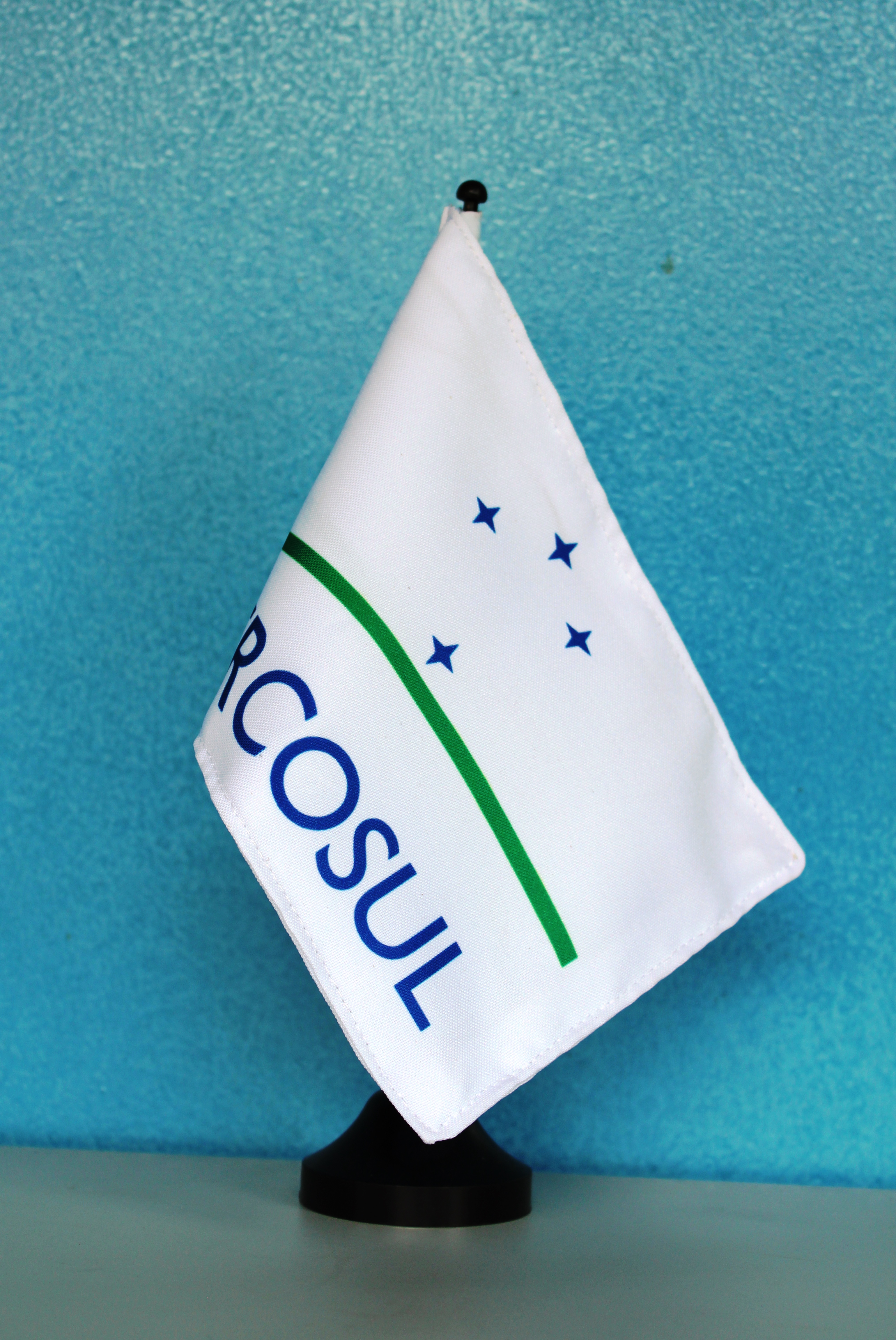 Mercosur miniature flag.